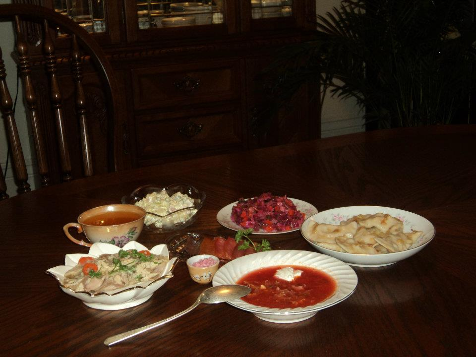 Clockwise: Borsch(plate with spoon), Kholodets, Kompot, Olivye, Vinigret, Varenyky. Center: Cured Salmon, Horseradish.